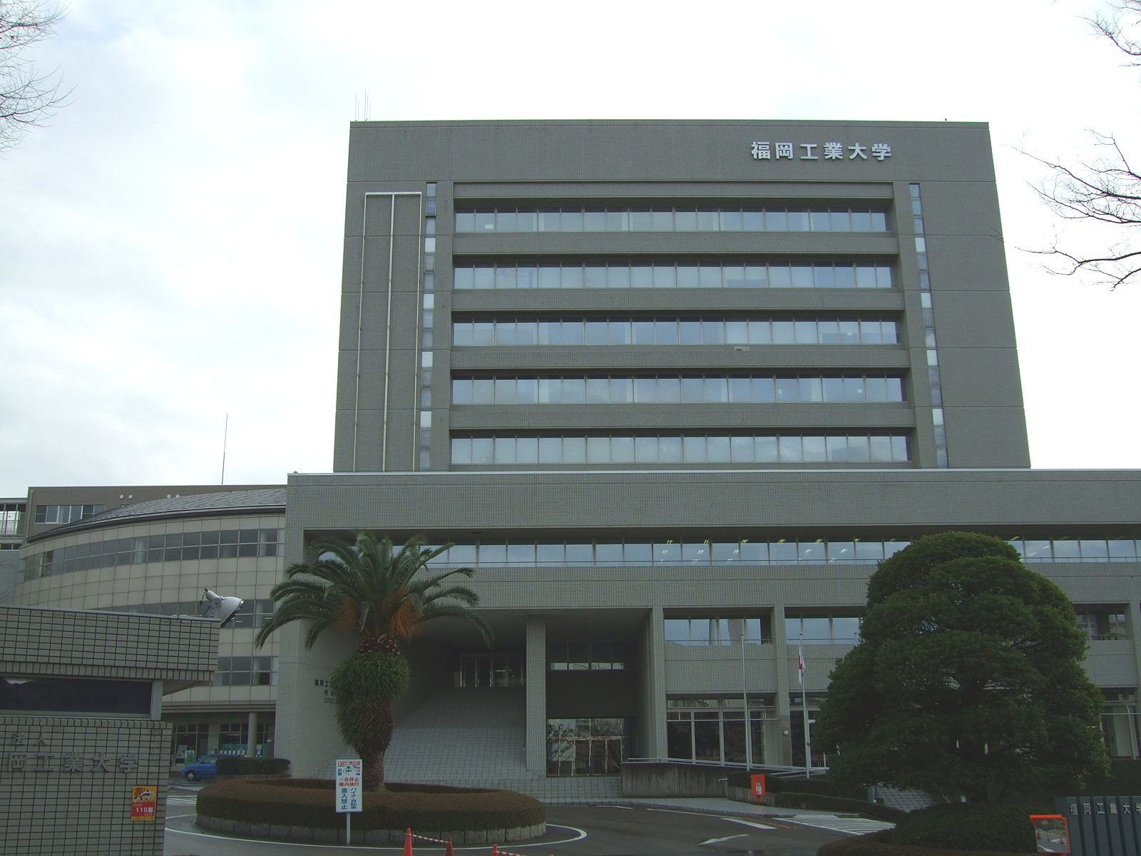 Fukuoka Institute of Technology